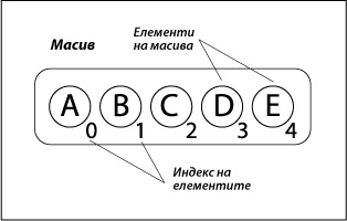 Scheme on array in C#.